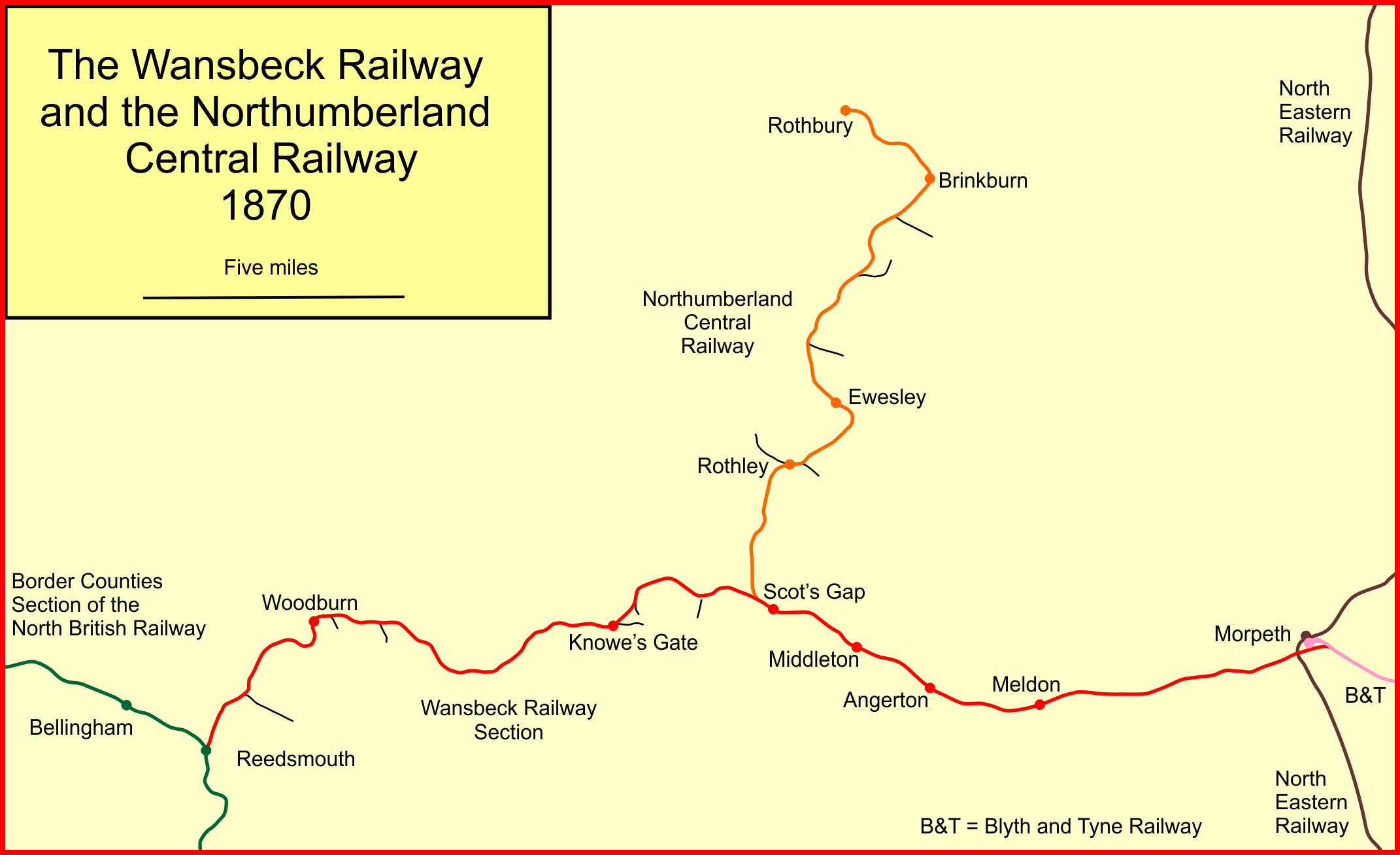 System map of the Wansbeck Railway and the Northumberland Central Railway, England